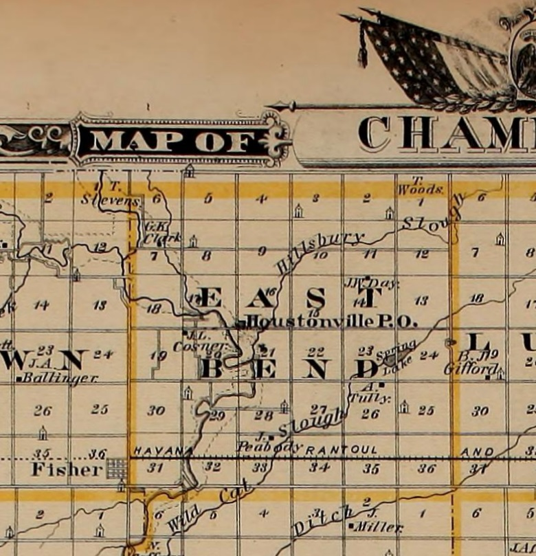 Detail of "Map of Champaign County" in: Warner & Beers, Atlas of the State of Illinois. Chicago: Union Atlas Co., 1876, p. 64.